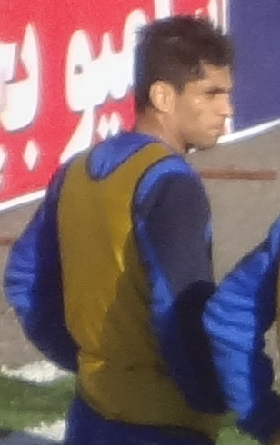 Milad Zeneyedpour, Damash vs Fajr